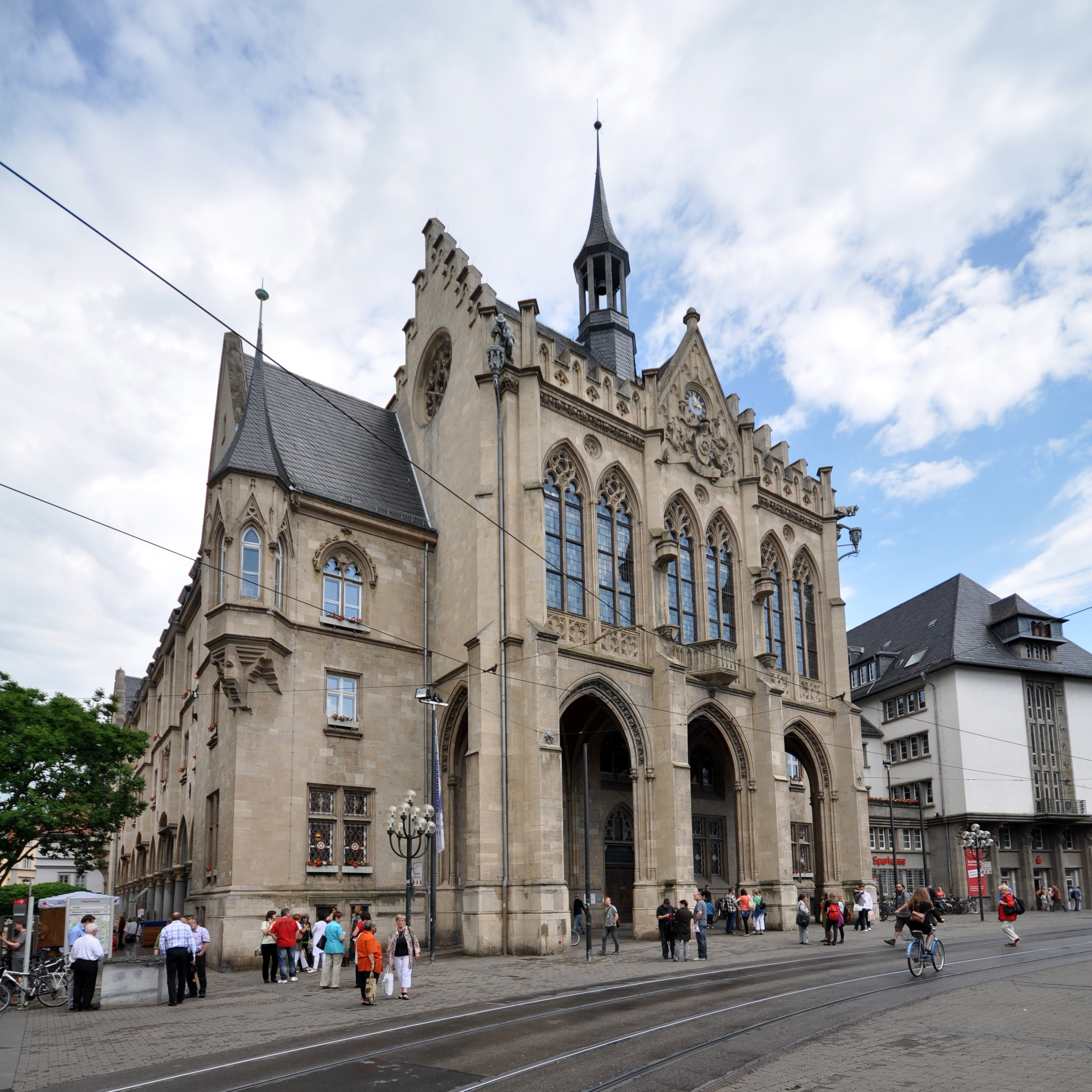 Erfurt (Town Hall)